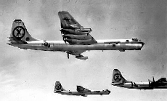 3-aircraft formation of RB-36 recon bombers over Korea, 1953